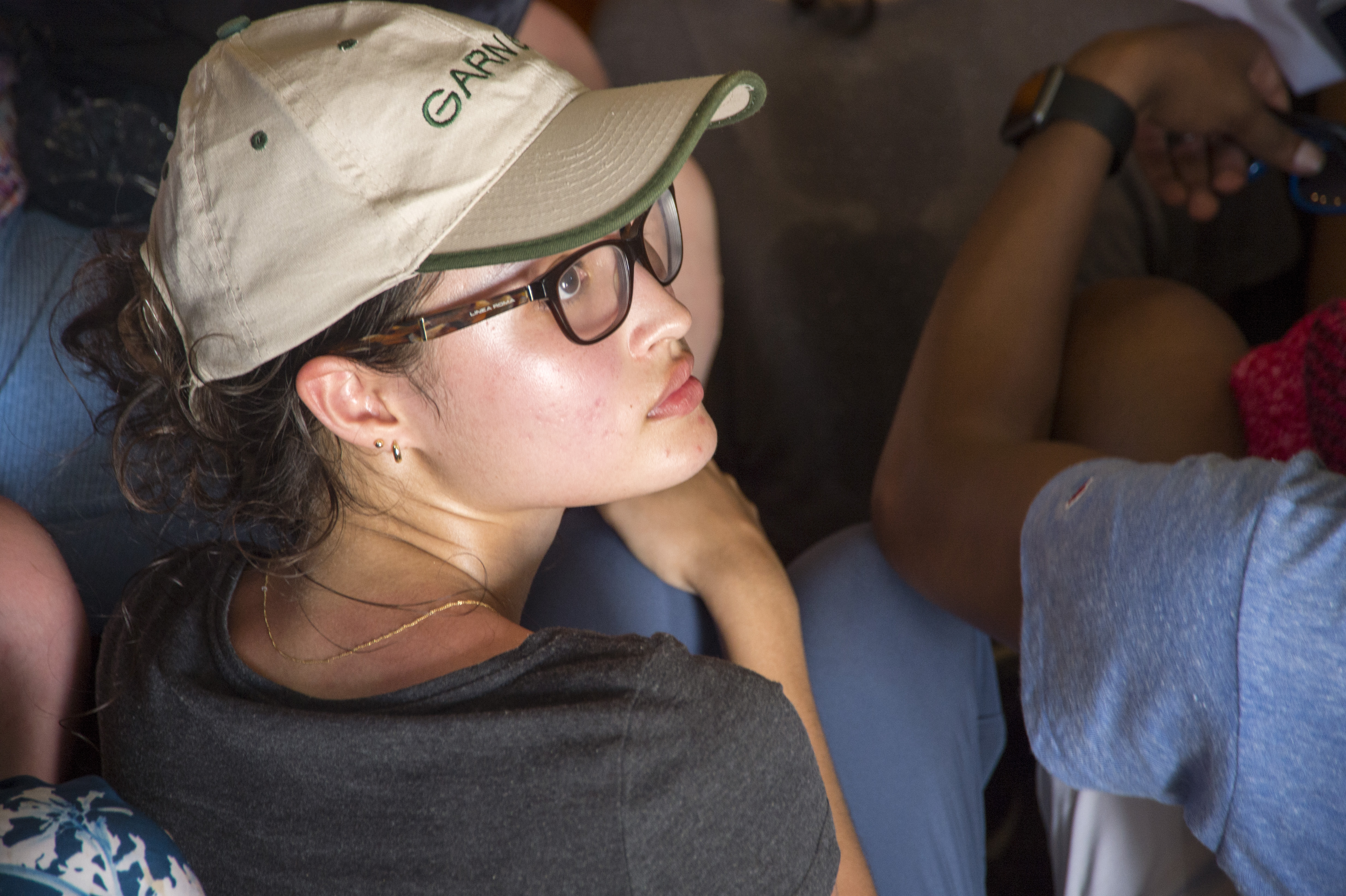 Evacuees sit on the floor of a HC-130 as it takes off from St. Maarten to San Juan, Puerto Rico. The New York Air National Guard's 106th Rescue Wing, staging out of San Juan, Puerto Rico with the 156th Air Lift Wing provide rescue support to those in need on St. Maarten. The 106th brought two HC-130 King aircraft, three HH-60 Pave Hawk helicopters, three zodiac boats and 124 Airmen required to carry out the mission.